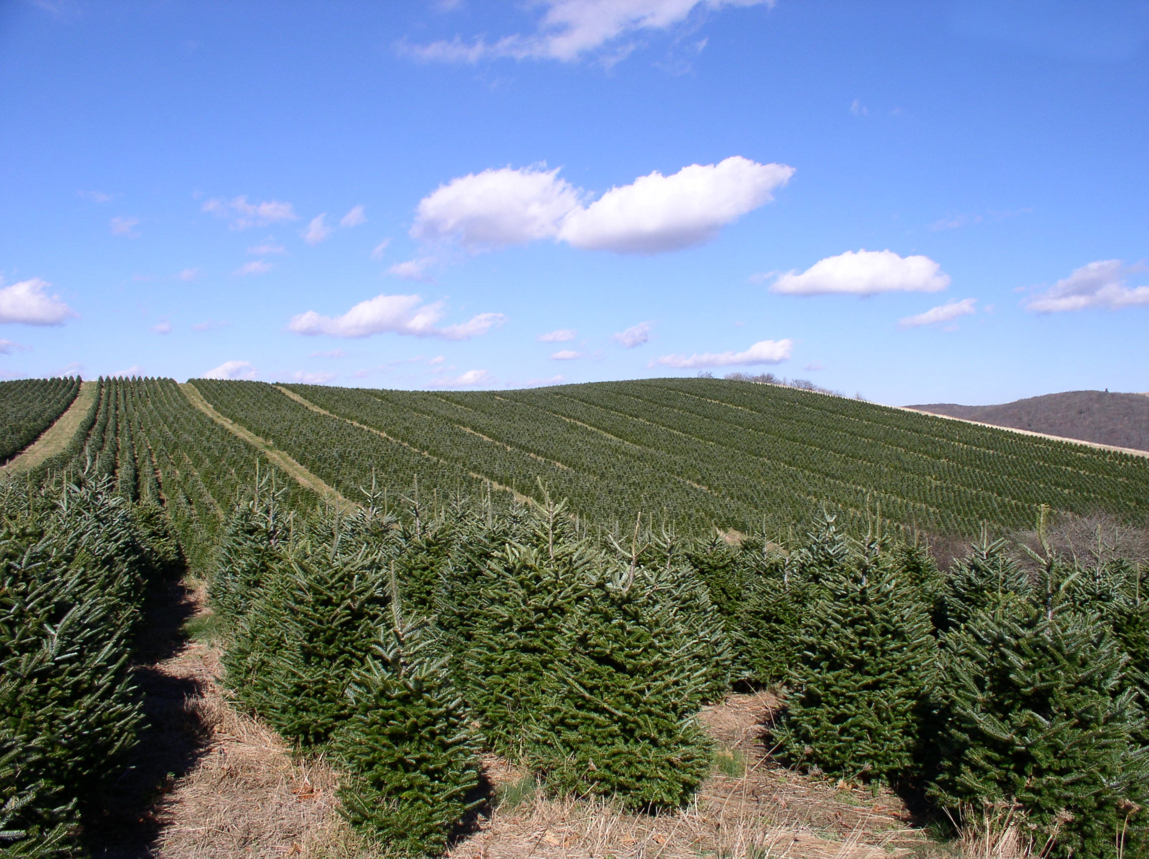 Abies fraseri Christmas tree plantation, USA